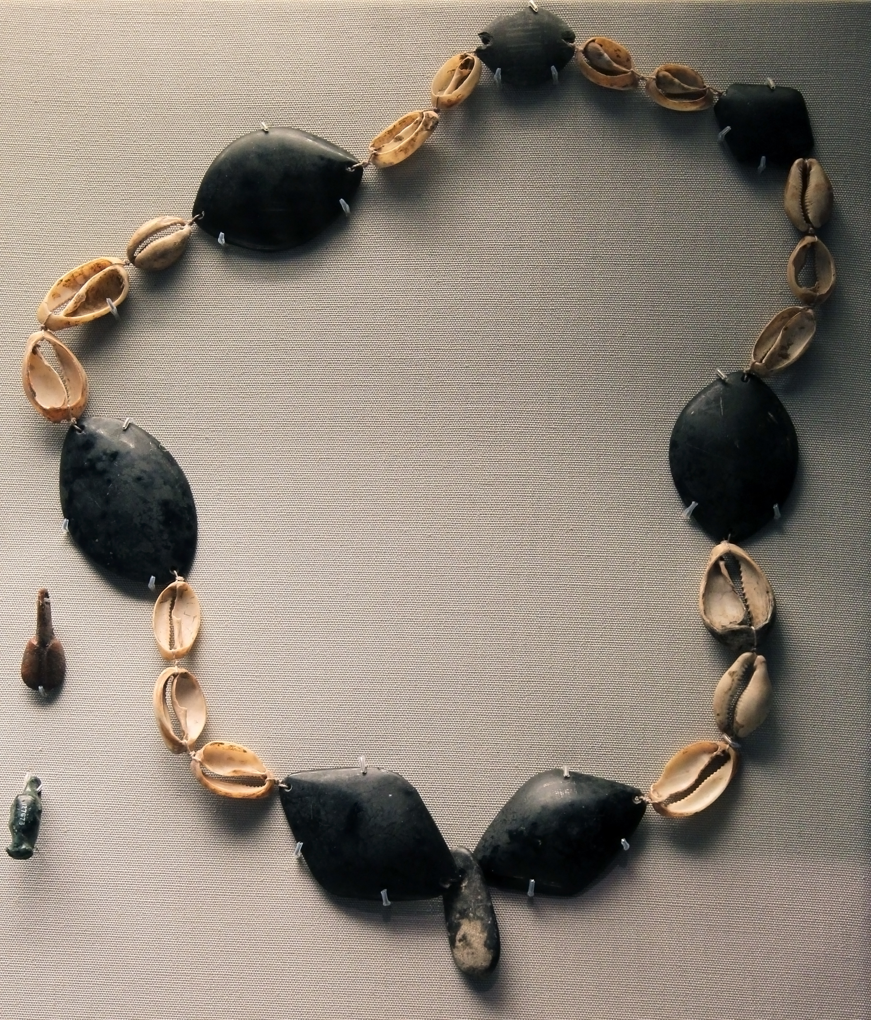 Necklace, obsidian beads and cowrie shells, from Arpachiyah, Halaf period, 5600-5200 BC. British Museum, room 56, ME 127814. This necklace is made from exotic goods : obsidian beads from Turkey ( one of them made of dark clay ) and cowrie shells from the Persian Gulf, originally coloured with red ochre.